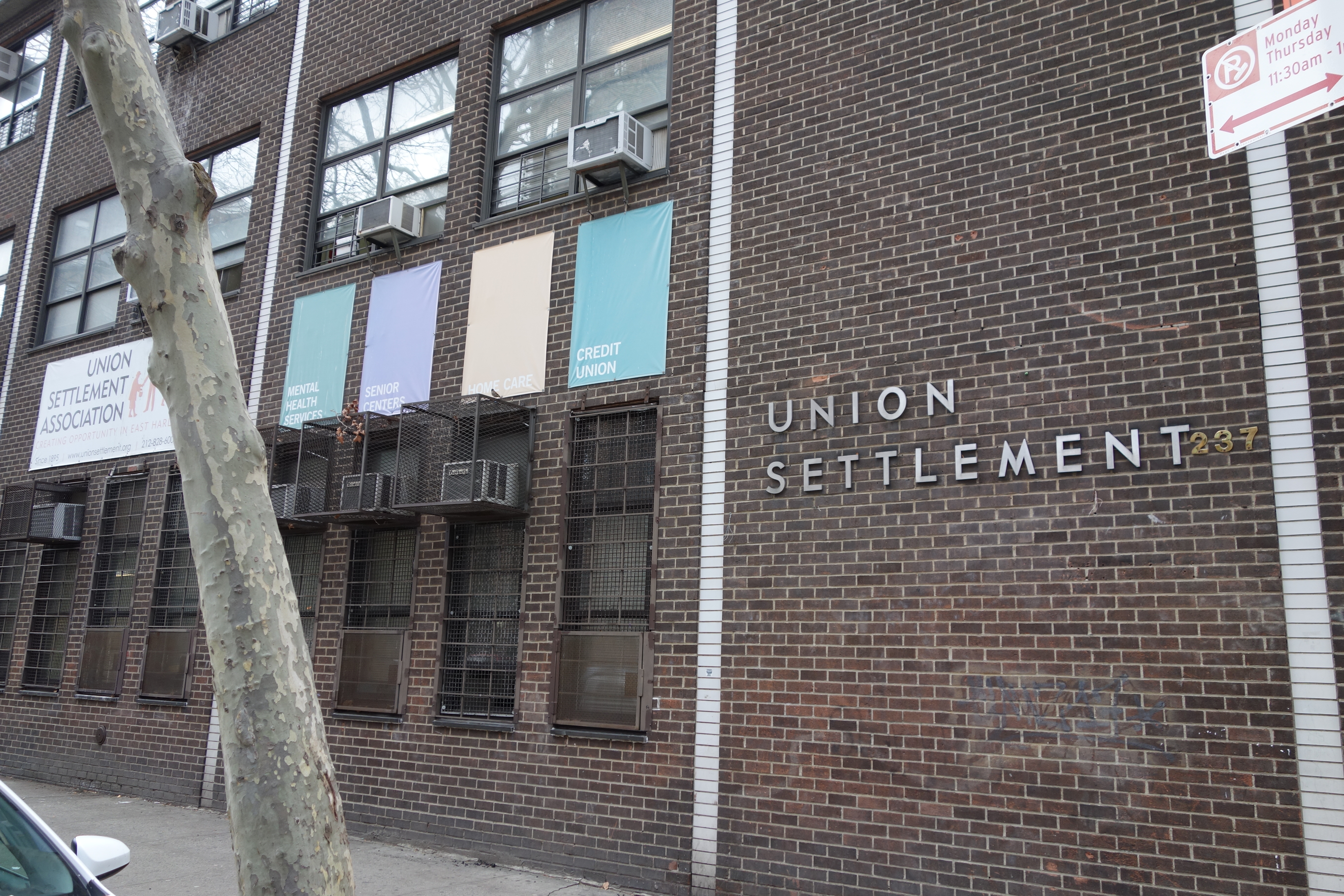 Community center located at 237 East 104th Street, New York, NY 10029-5404.